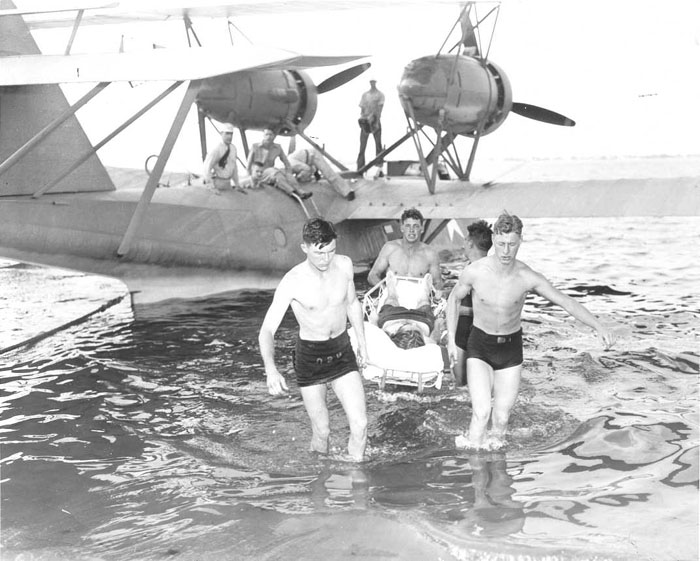 Rescue of U-701 Survivors July 9, 1942 The survivors are brought ashore at NAS Norfolk, Virginia Commander Richard L. Burke, CO of Coast Guard Air Station Elizabeth City, was awarded his second Distinguished Flying Cross for landing his seaplane in rough conditions to rescue U-701 survivors